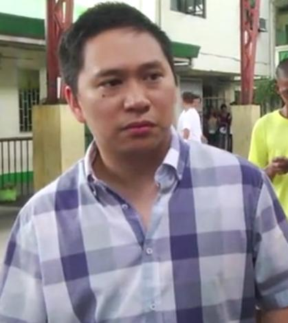 On Tangos National Highschool, Navotas